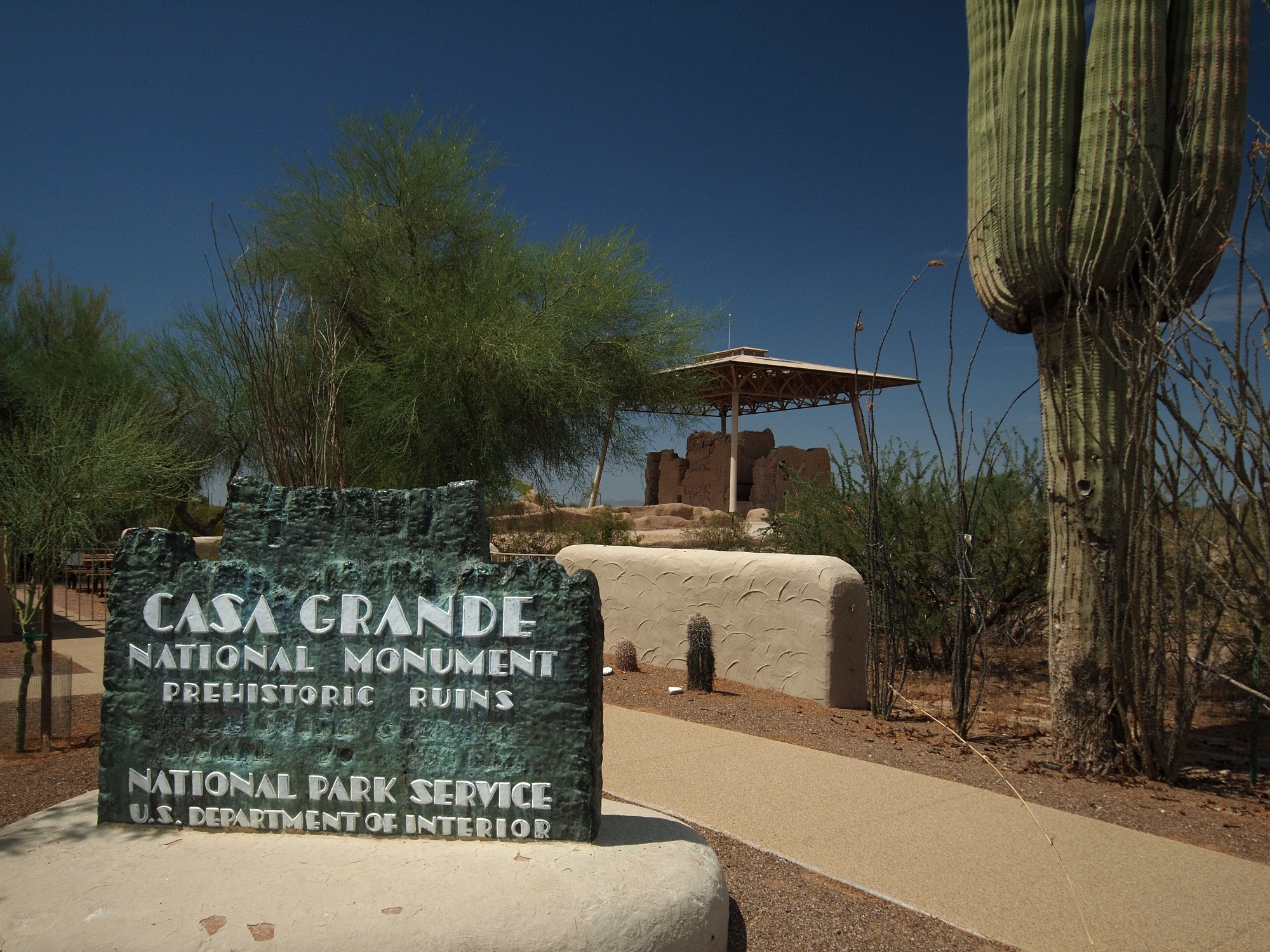 Casa Grande Ruins National Monument in Coolidge. Photo taken with an Olympus E-P1 in Pinal County, AZ, USA. Cropping and post-processing performed with The GIMP.